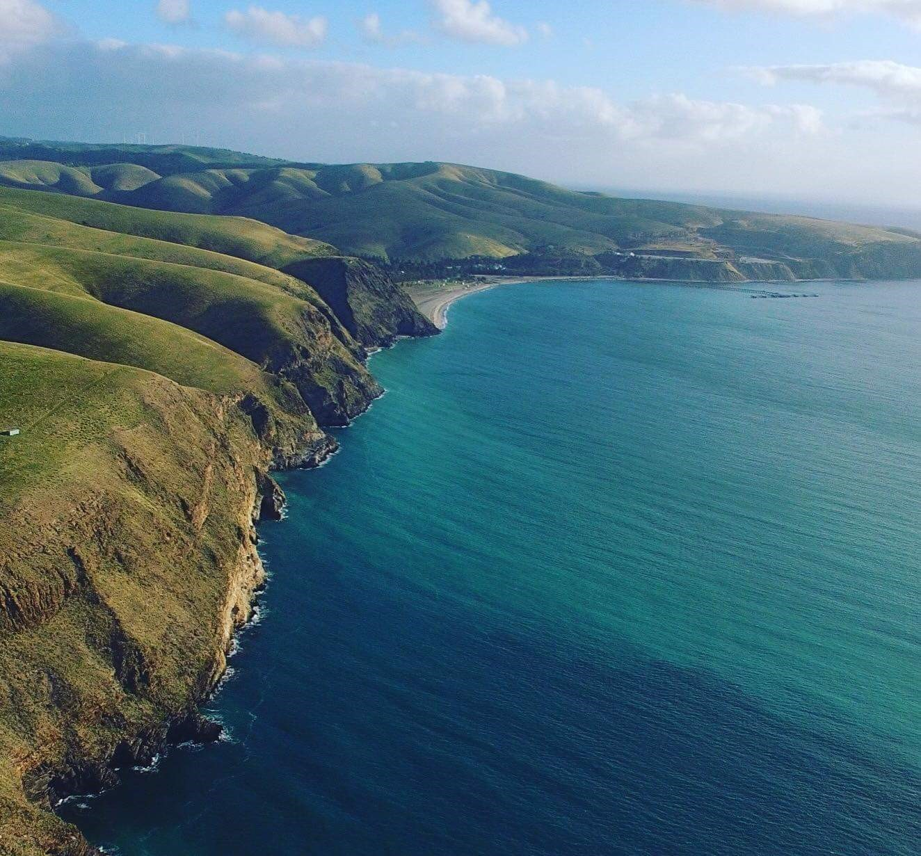 rapid bay